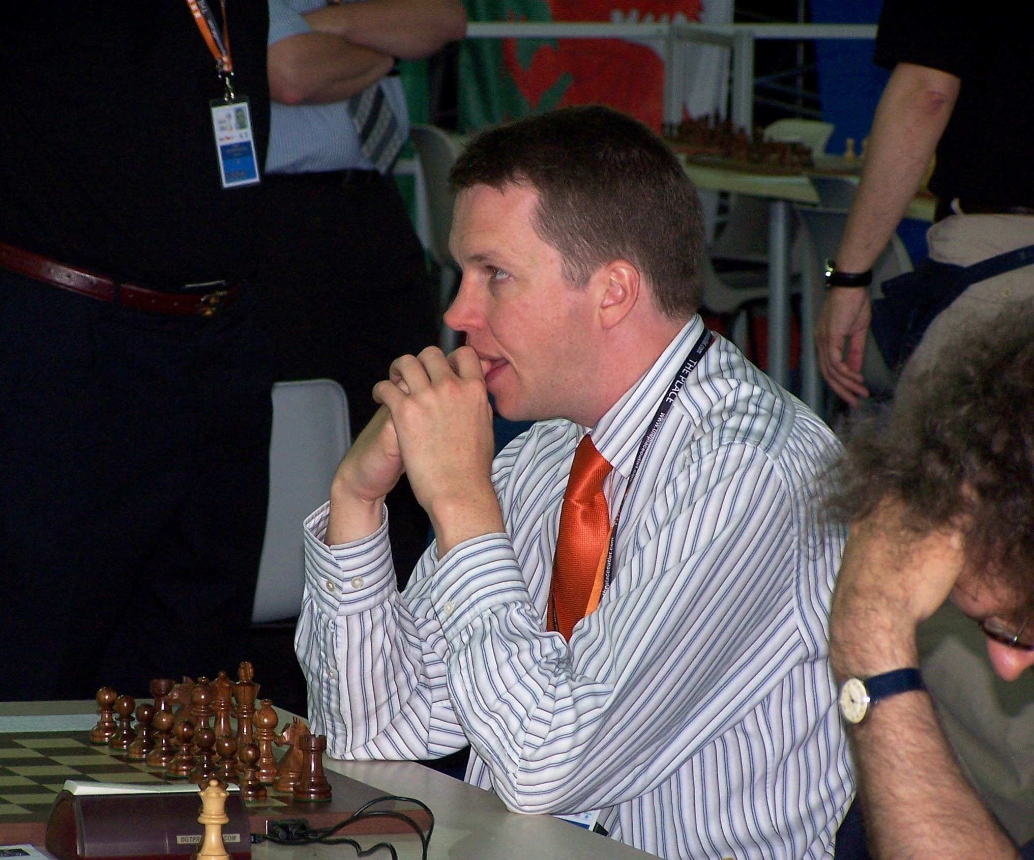 Photo of Grandmaster Nigel Short taken at Turin 2006 olympiad